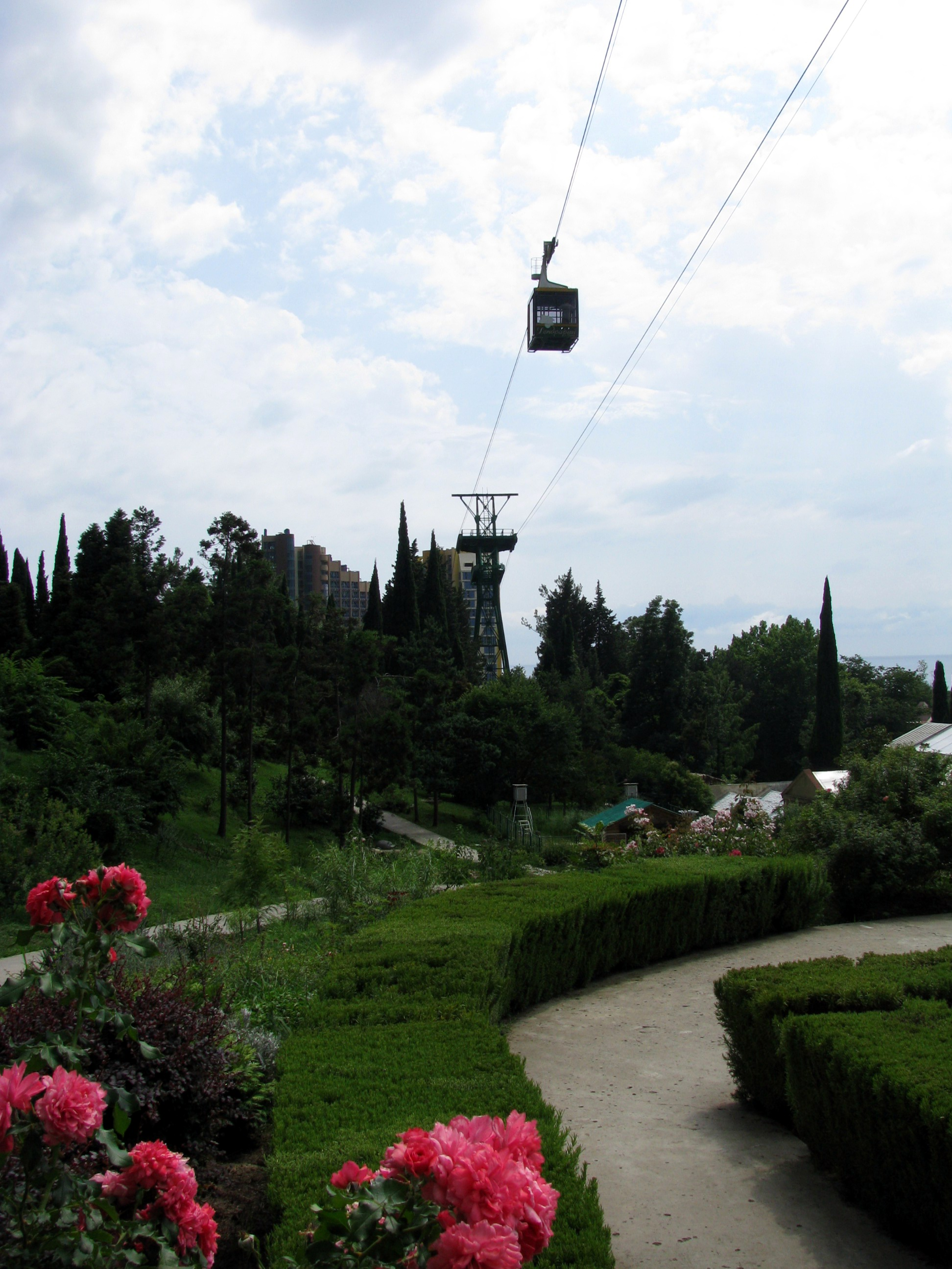 Dendrarium Sochi Ropeway — Sochi Arboretum.